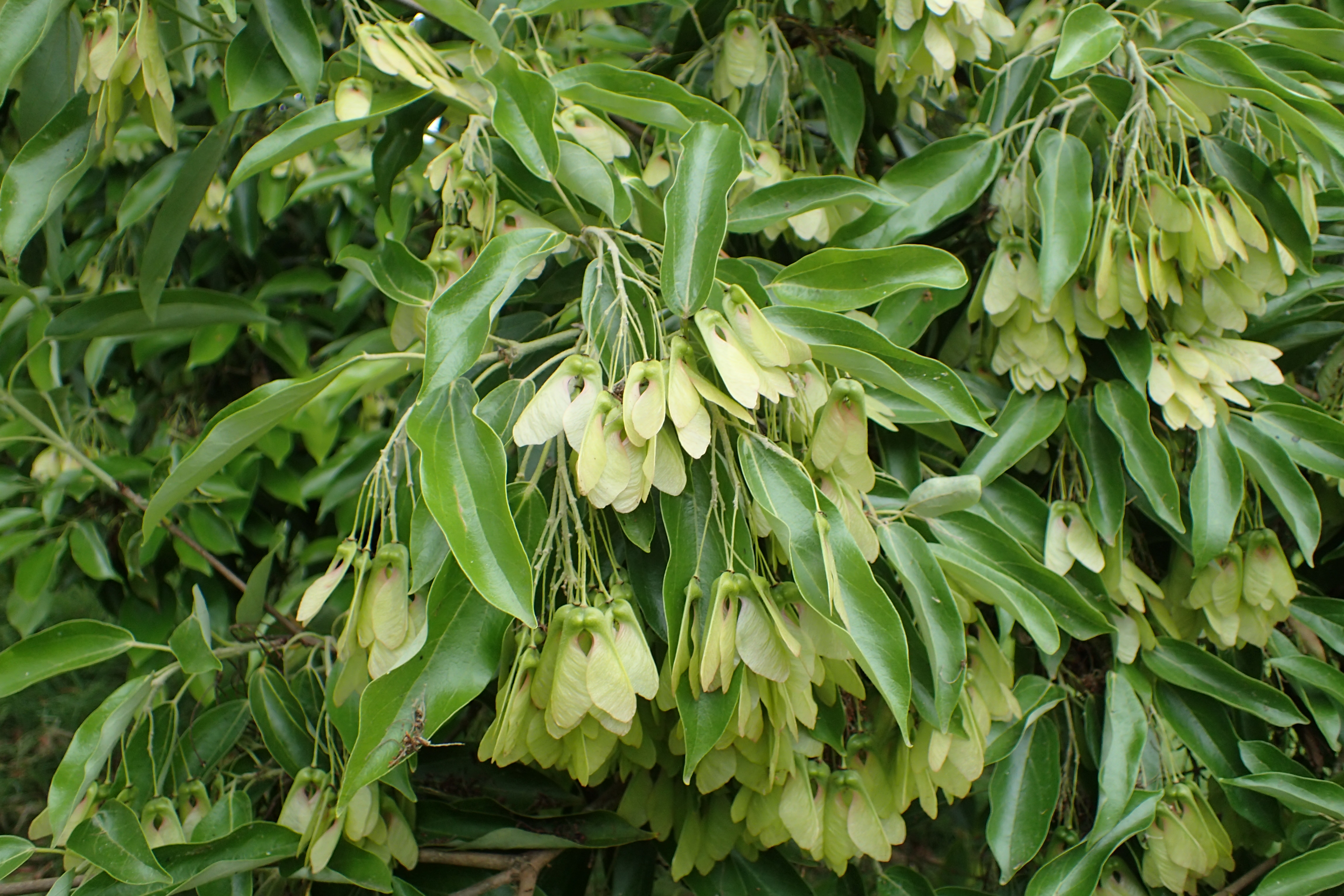 Acer coriaceifolium in Hackfalls Arboretum, Hawkes's Bay (NZ)